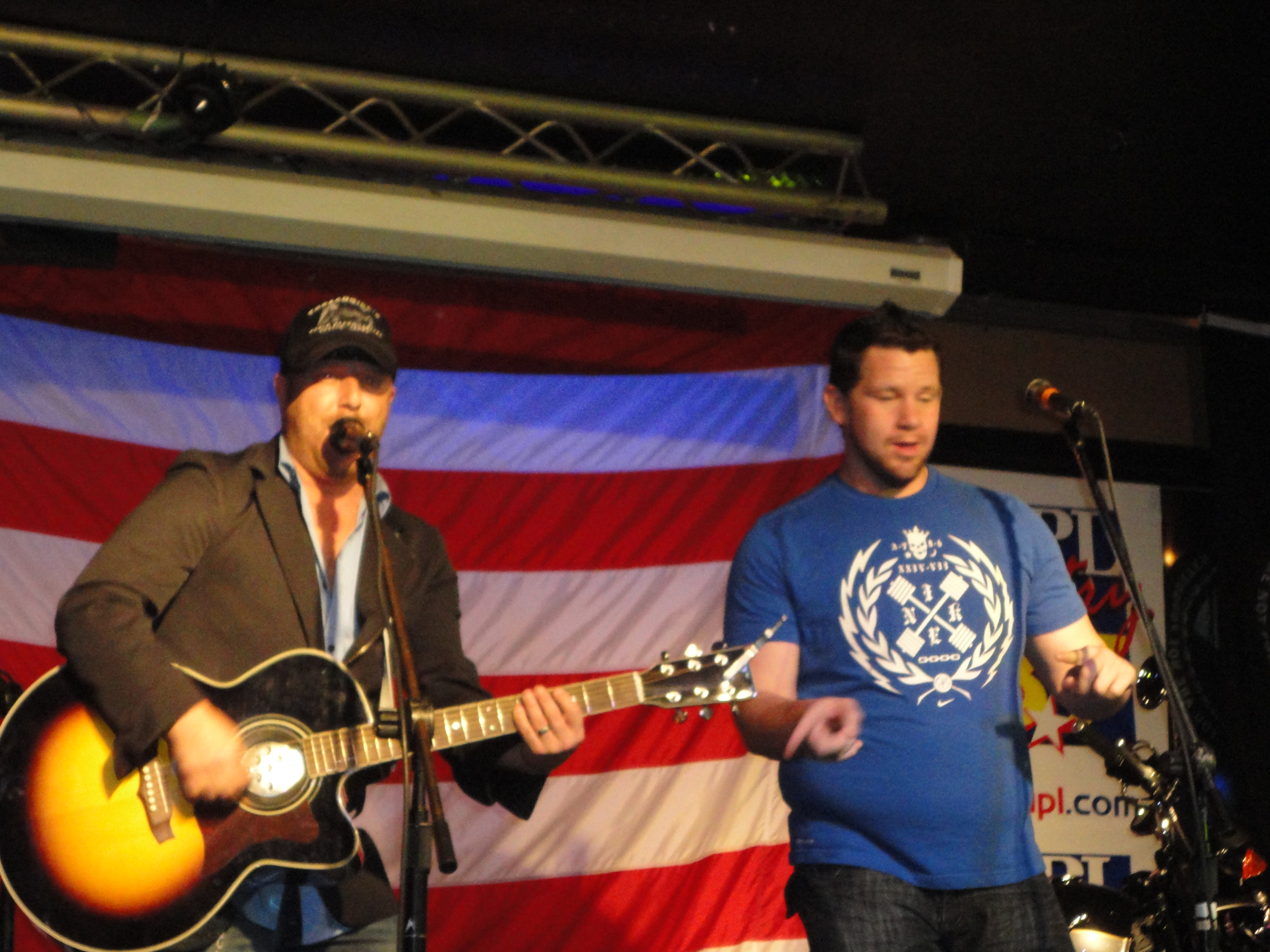 Trailer Choir plays Portland, OR. May 25, 2012. Medium View.